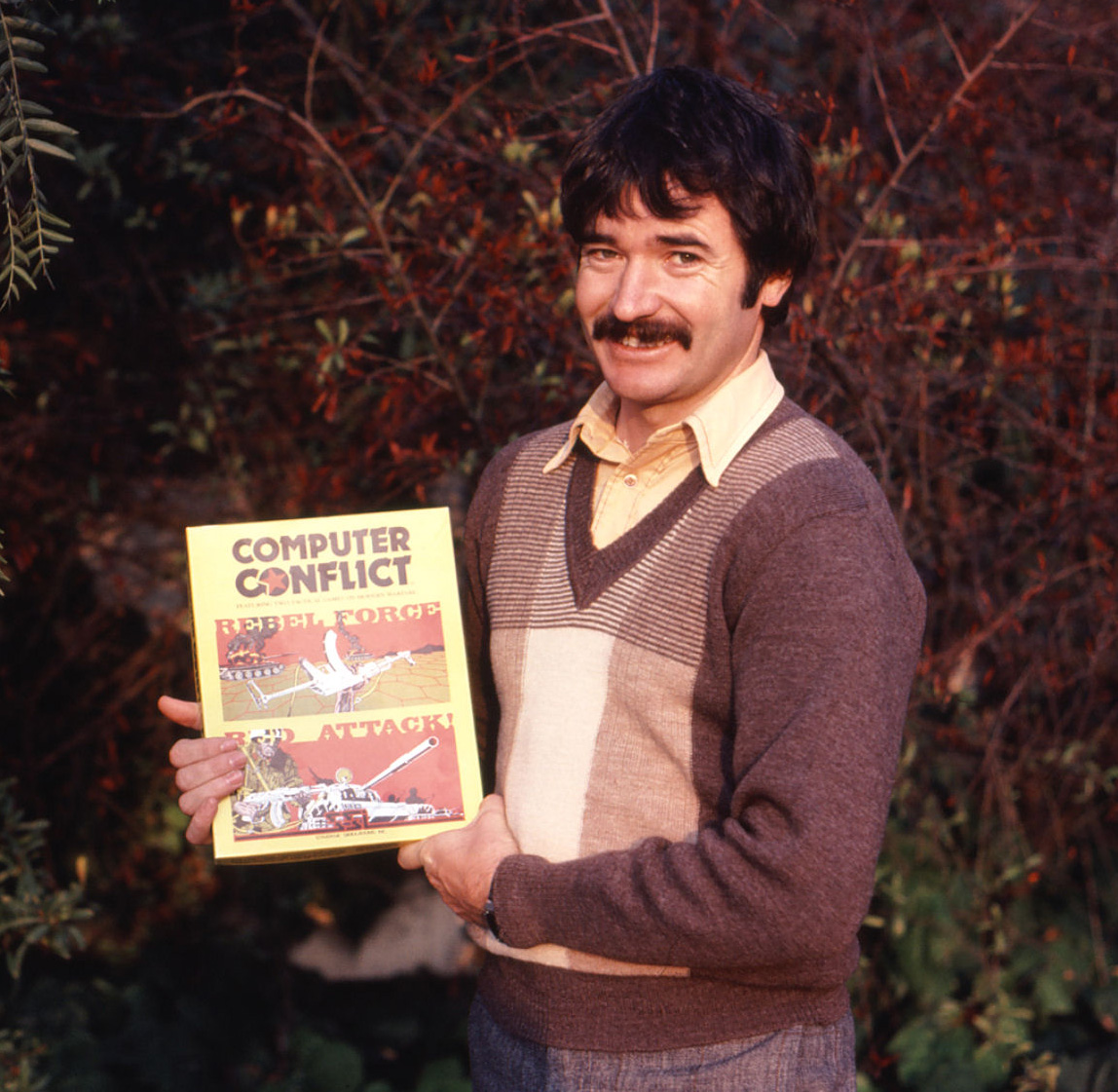 Roger Keating, co-founder of Strategic Studies Group